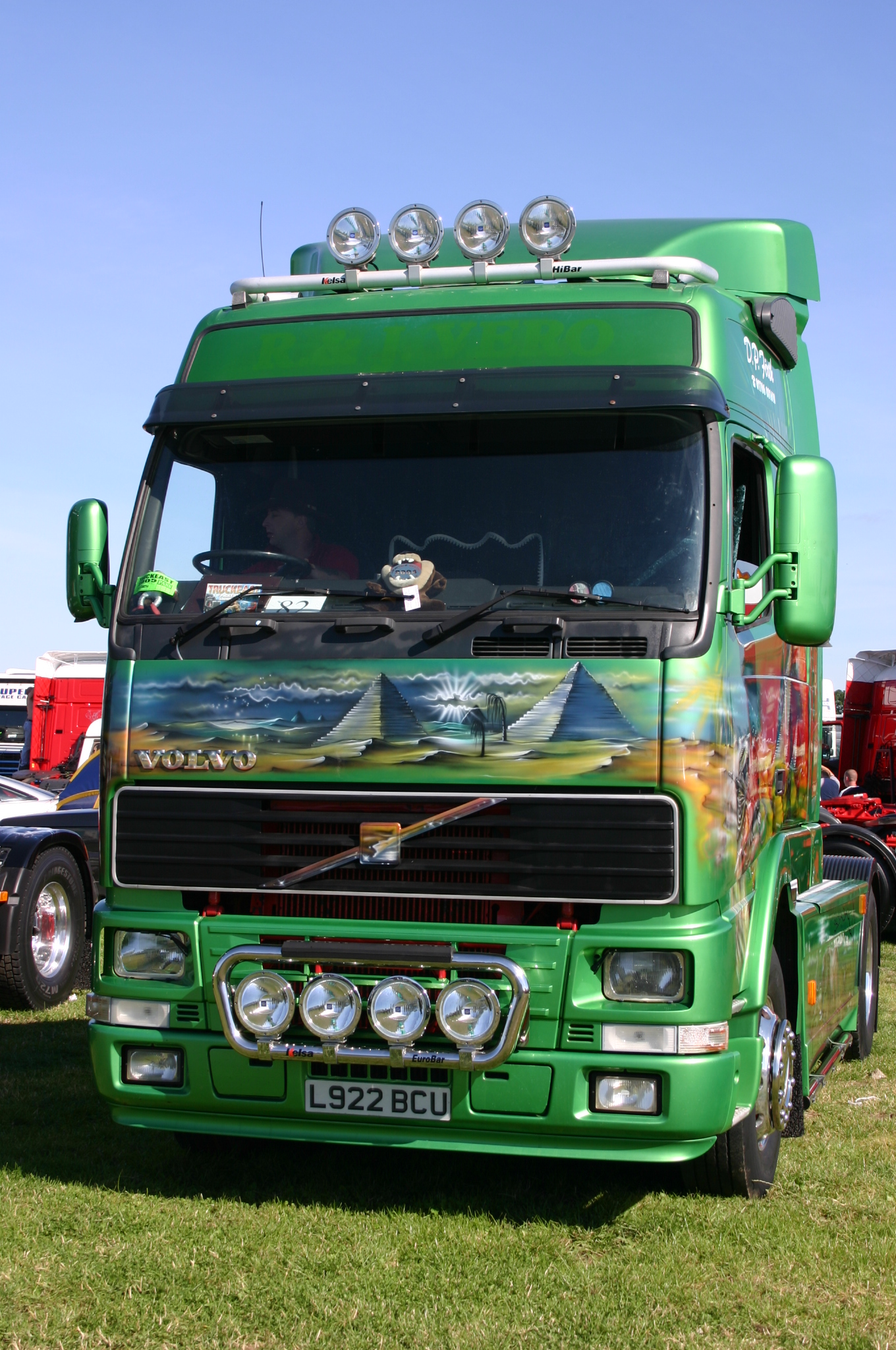 Big trucks on display at a Yorkshire event